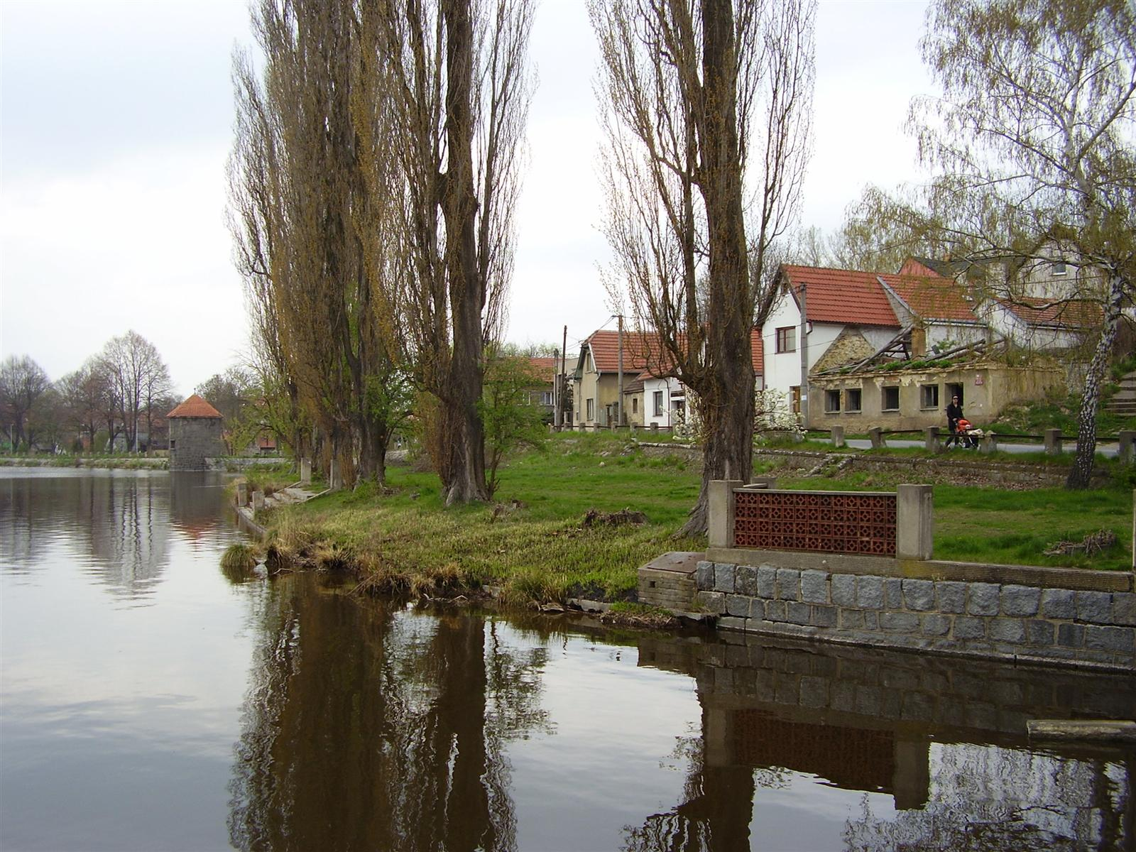 Dam of pond and village Břve near Hostivice in Prague-west distict